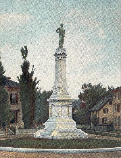 Soldiers' Monument, Beverly, MA; from a 1907 postcard.